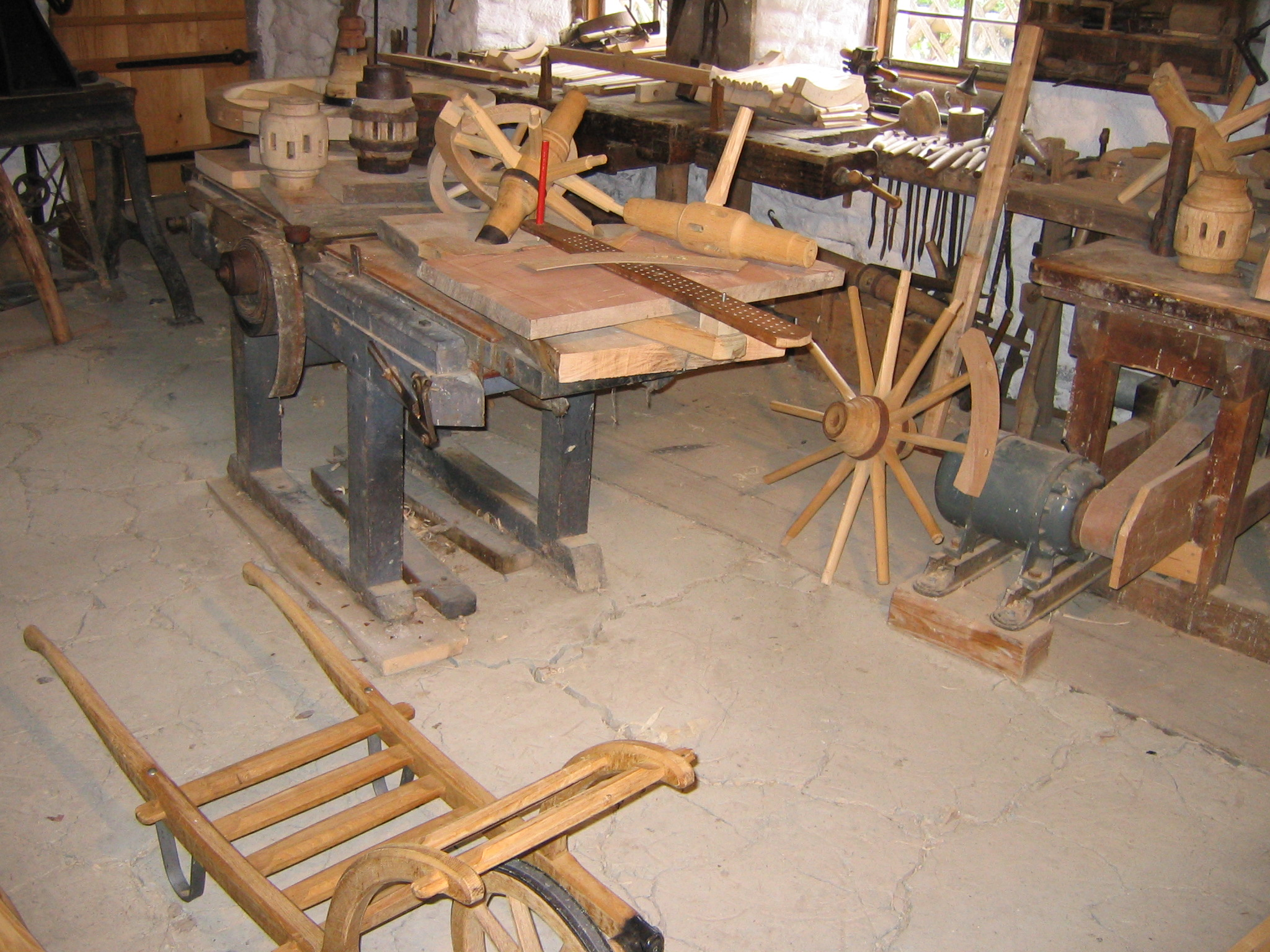 wainwright's office at the Freilichtmuseum Neuhausen ob Eck